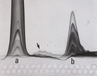 Fused rocket immunoelectrophoresis of an affinity chromatoraphy separation of human serum proteins on immobilized ConA. Experiment performed by me at the University of Copenhagen Proteinlaboratory in the 1970's